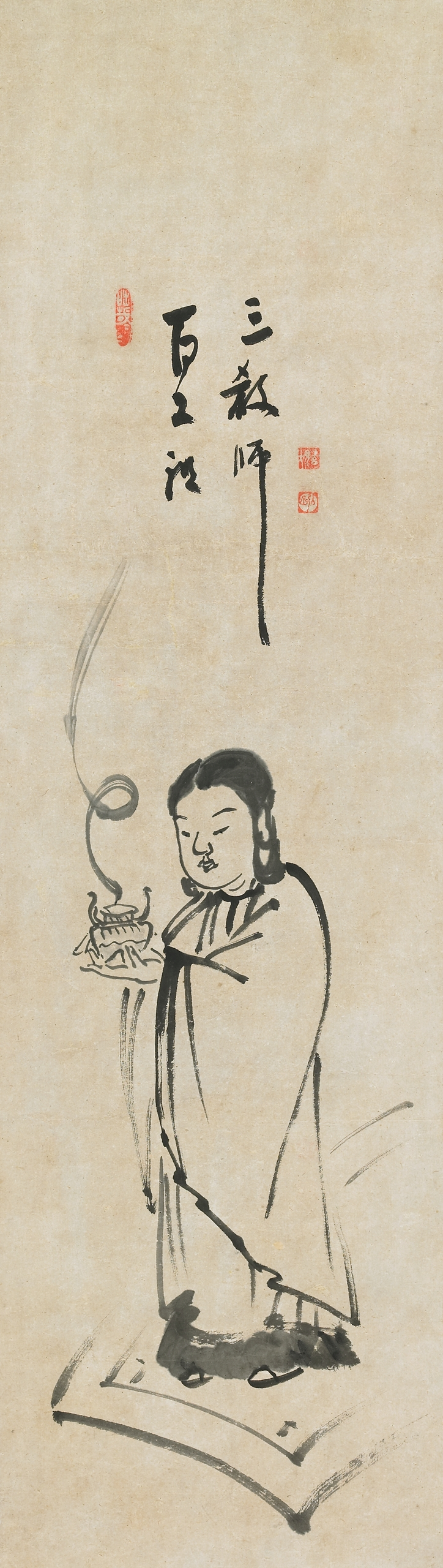 Prince Shotoku, painted by Kogan Zenji (1800), courtesy of Minneapolis Institute of Arts